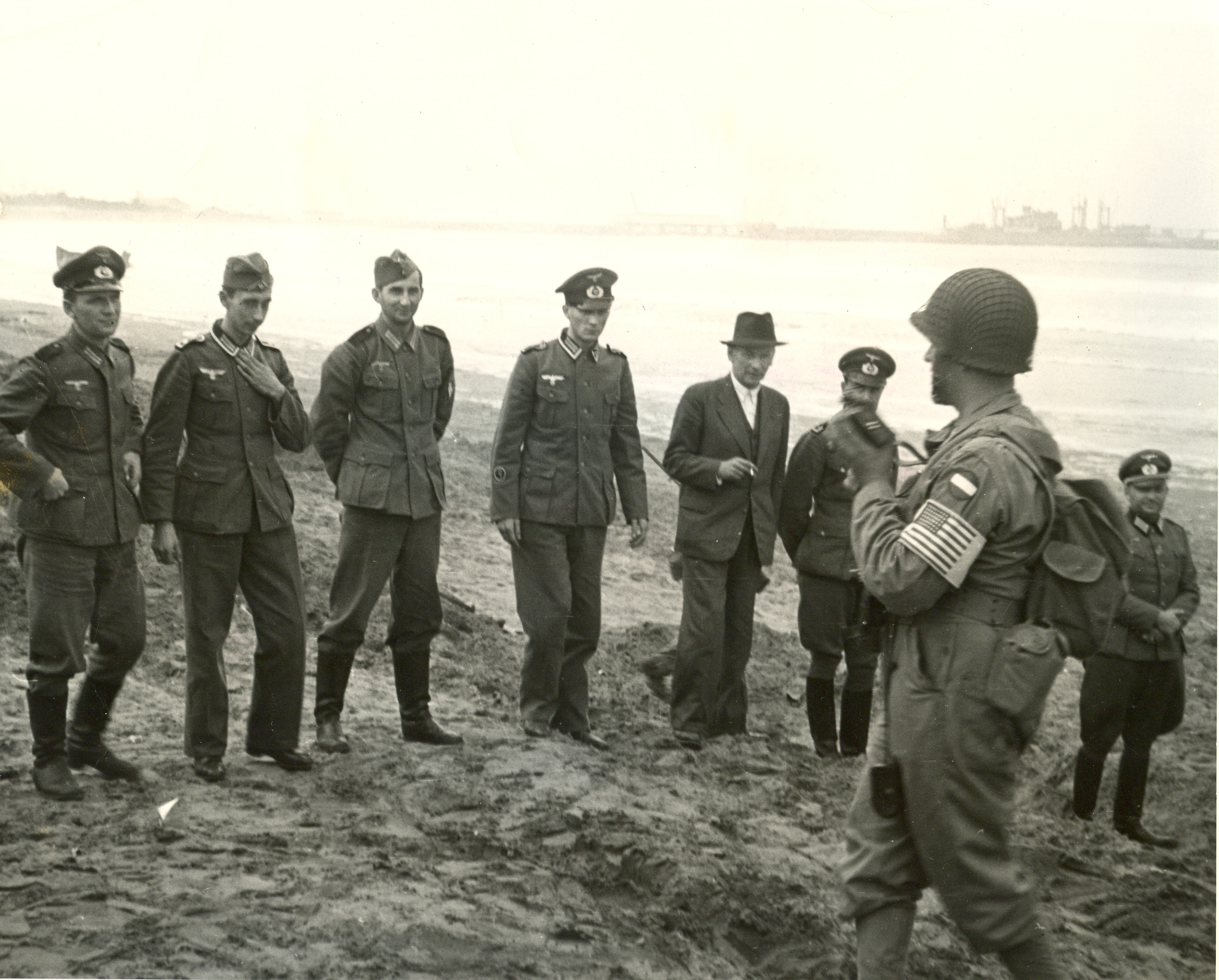 German officers captured in French Morocco. Lieutenant Robert Longini photographs German officers captured at Fedala, French Morocco. Vichy French military forces in North Africa were under the overall direction of the Germans under the terms of the June 1940 Armistice with France.